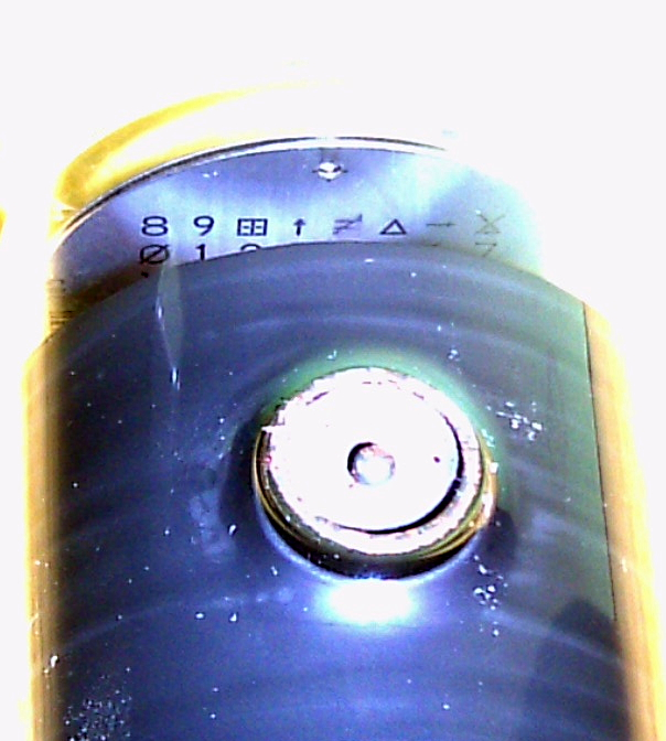 Character generator monoscope CK1414F10C made by Raytheon. Generates an analog video signal with capital letters, digits and various dingbats; some of the stenciled characters on the -F10C custom anode are visible